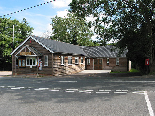 Aston Ingham Village Hall and post box. The hall is wood clad and was refurbished in 2004.